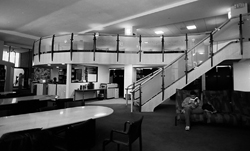 MIT Lewis Music Library